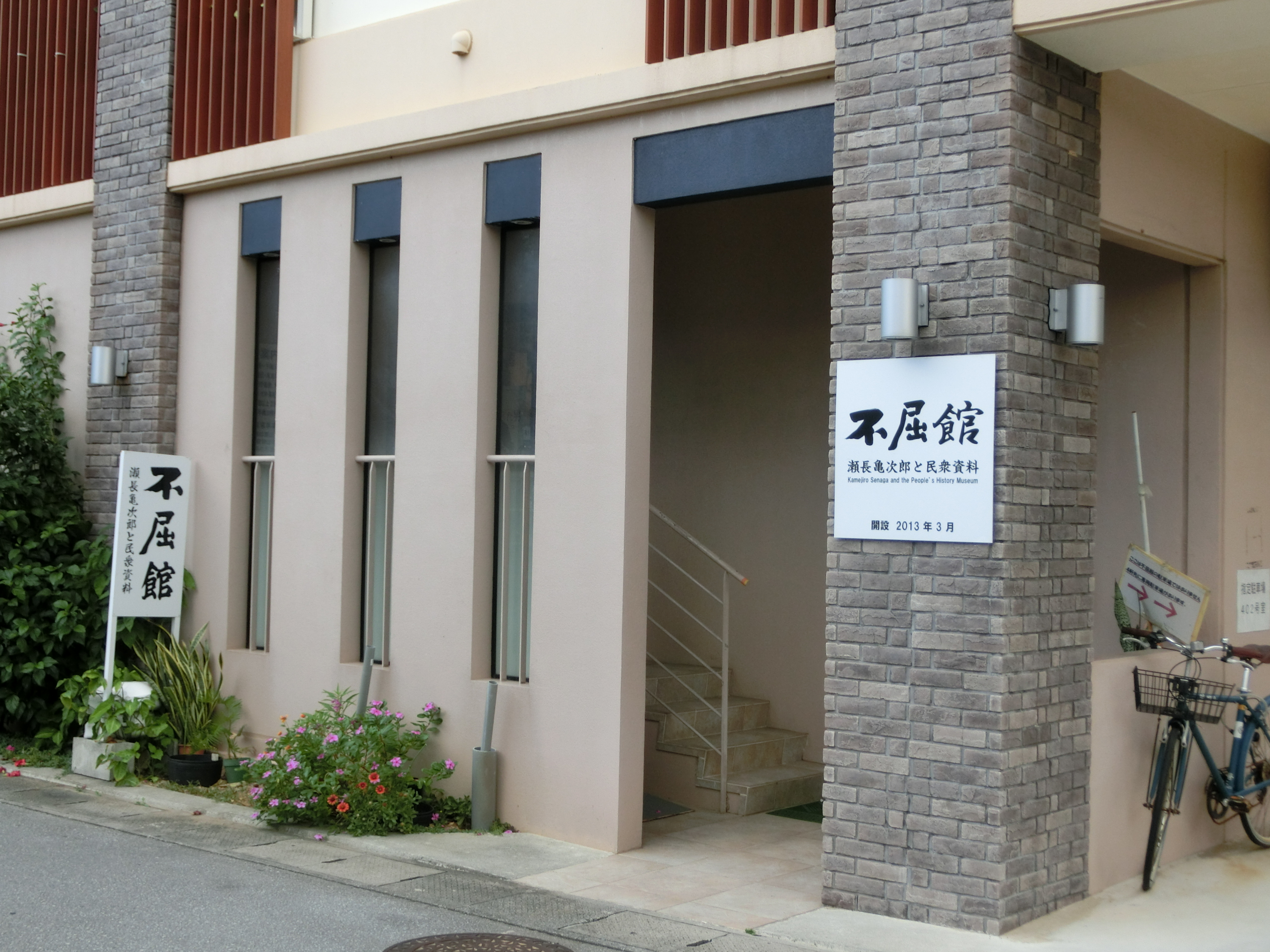 Kamejiro Senaga and the People's History Museum